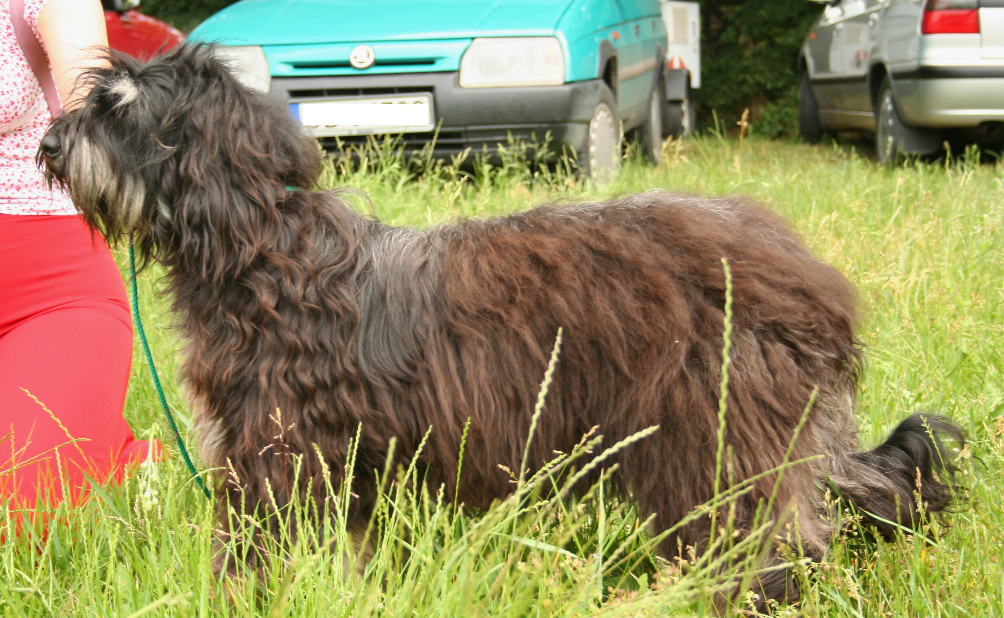 Portuguese Sheepdog during dog's show in Racibórz, Poland